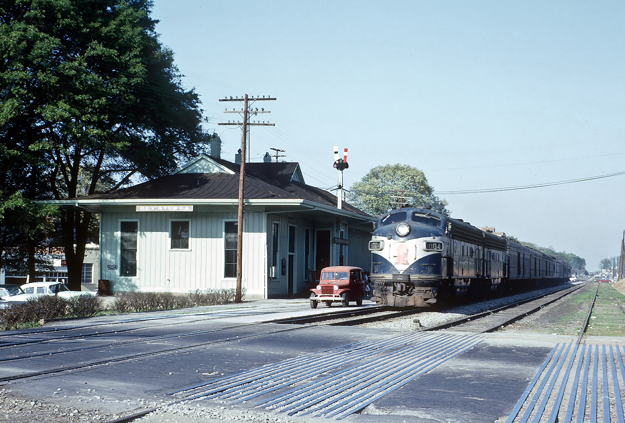 The red Jeep is the U.S. Mail truck. April 12, 1963 A Roger Puta Photograph